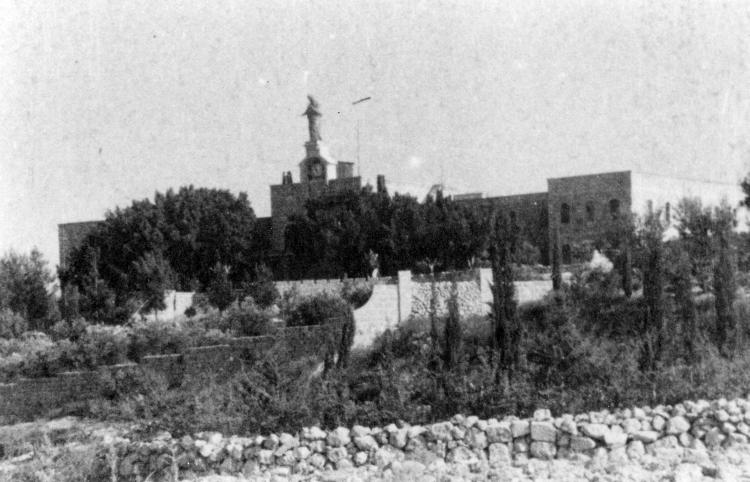 Dayr Rafat Monastry, 1948